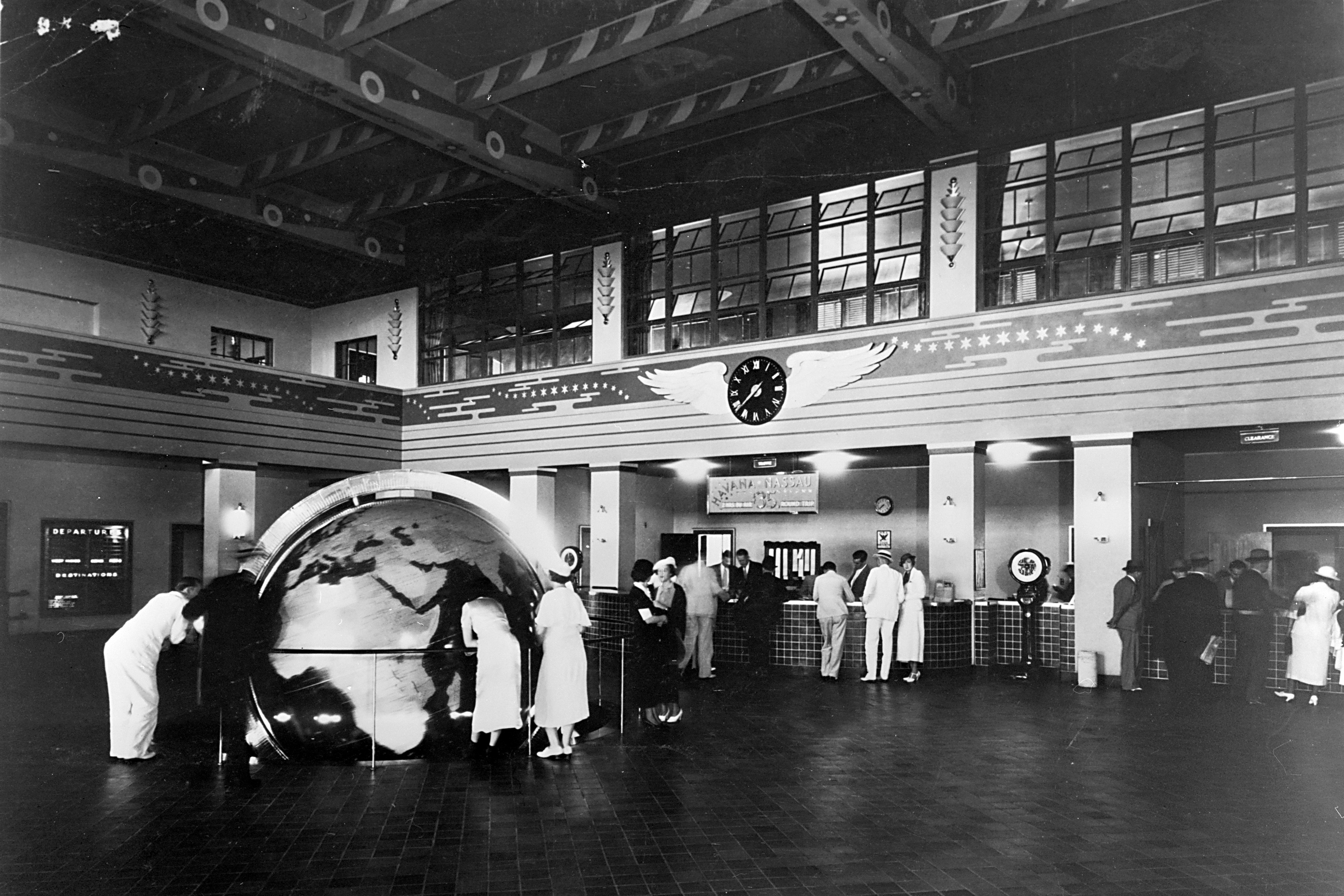 Interior, Pan American Airways System Terminal Building, 3500 Pan American Drive, Miami, Dade County, Florida (USA).